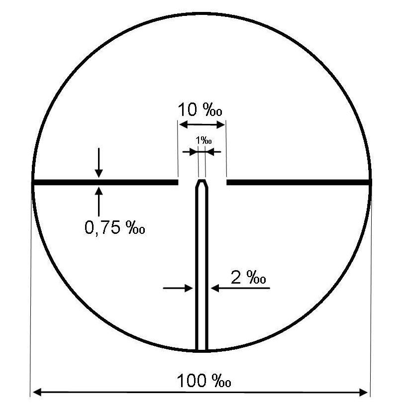 Reticle of the Kern 4x24 telescopic sight. It has a 100 m field of view at 1000 m. This corresponds with a 100 mil (milliradians) wide field of view.